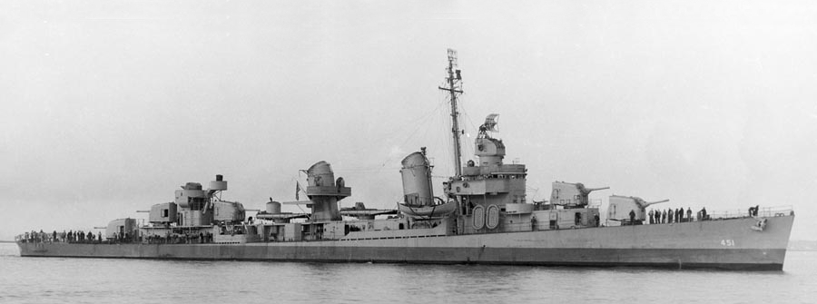 The U.S. Navy destroyer USS Chevalier (DD-451) in Boston harbor, Massachusetts (USA), on 24 October 1942 just prior to departing to escort a convoy during the invasion of North Africa.